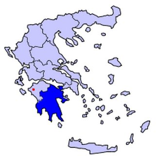 Hípies va néixer a Elis